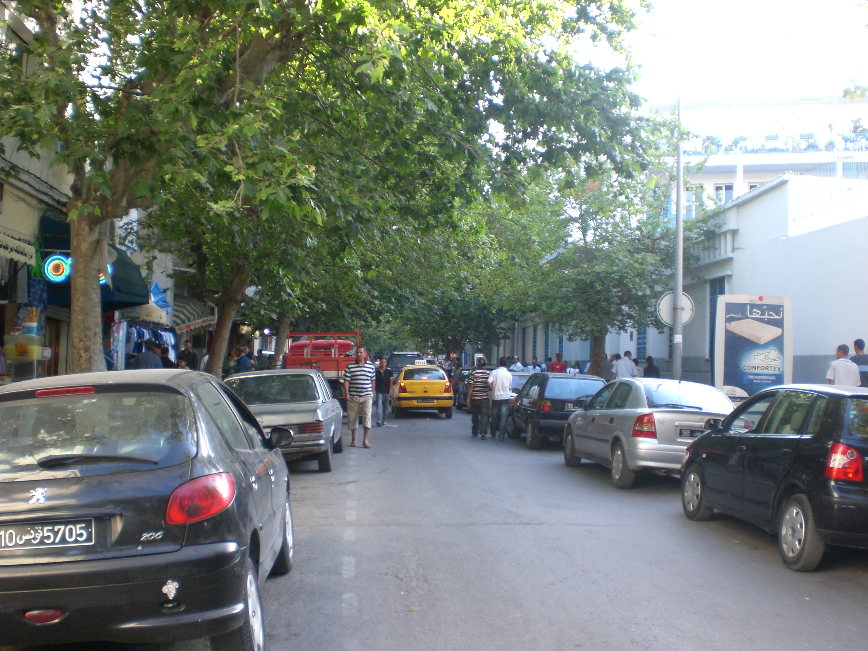 Rue d'Algerie at Tunis